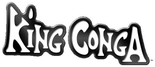 Logo of King Conga, a defunct percussion instruments manufacturer.